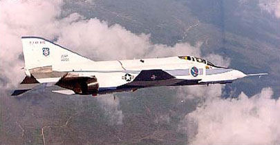 McDonnell Douglas YF-4E Fly-by-Wire (before the canard modification)